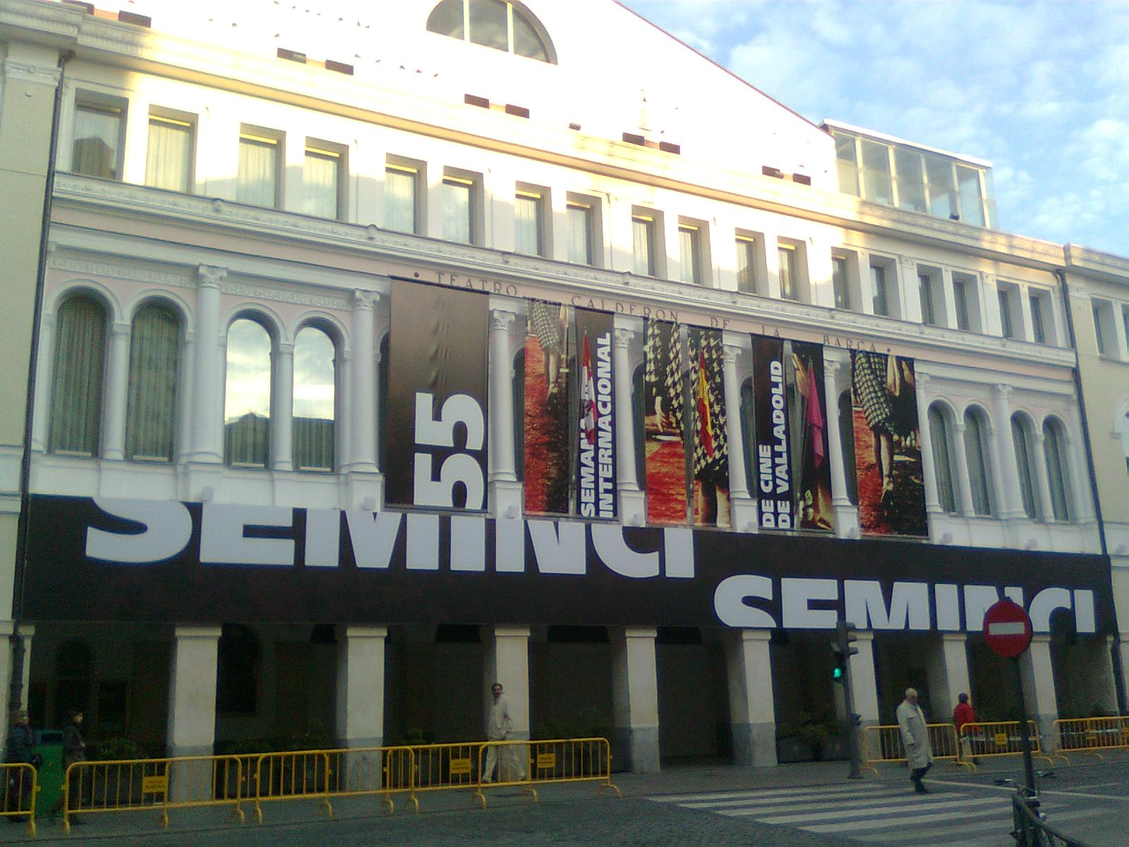 Outside of the Teatro Calderón in Valladolid (Spain) during the 55th Seminci (2010)